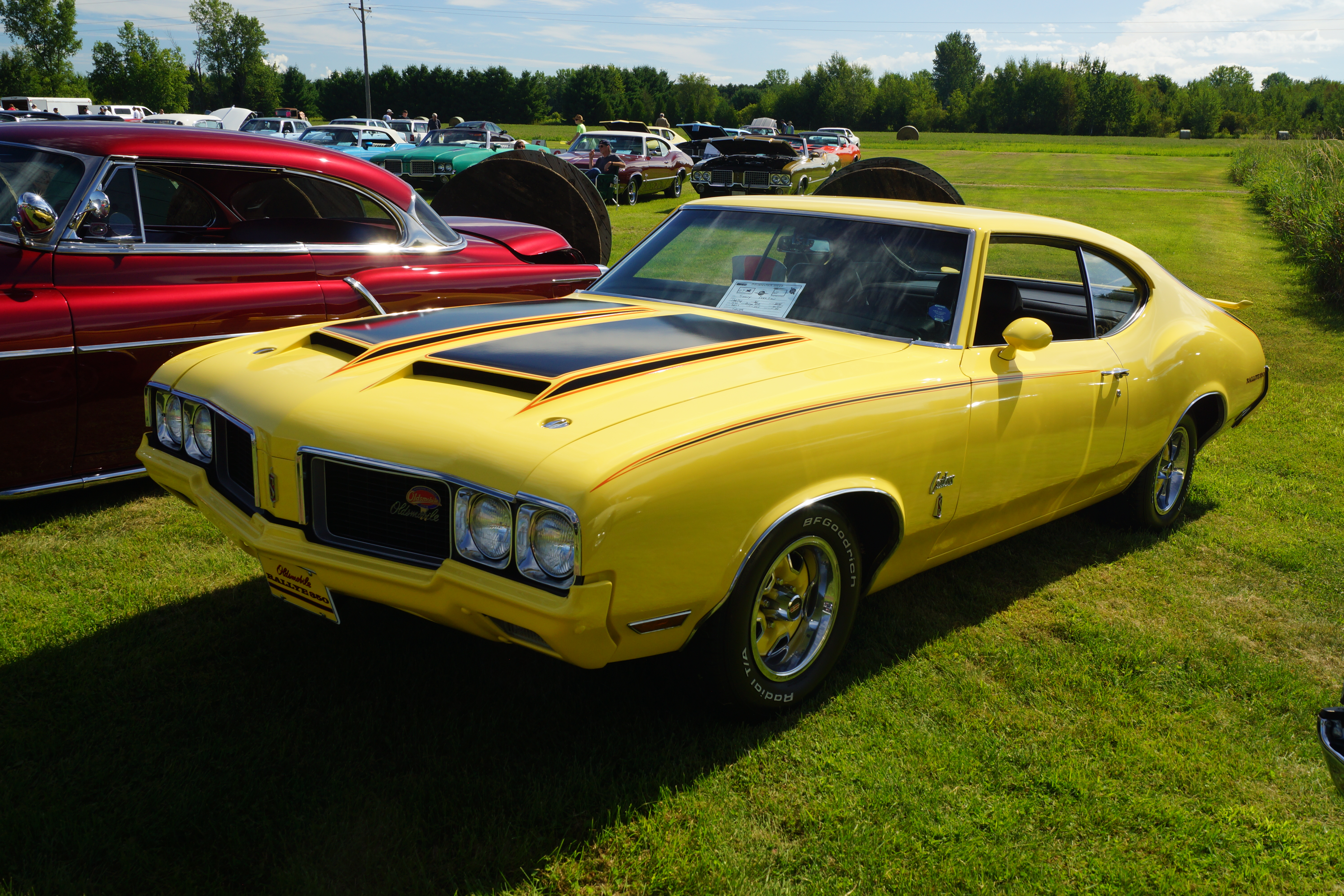 Minnesota Olds Club 40th Oldsmobile State Show & Swap meet Blacksmith Lounge Hugo, Minnesota August 2016 Click here for more car pictures at my Flickr site.